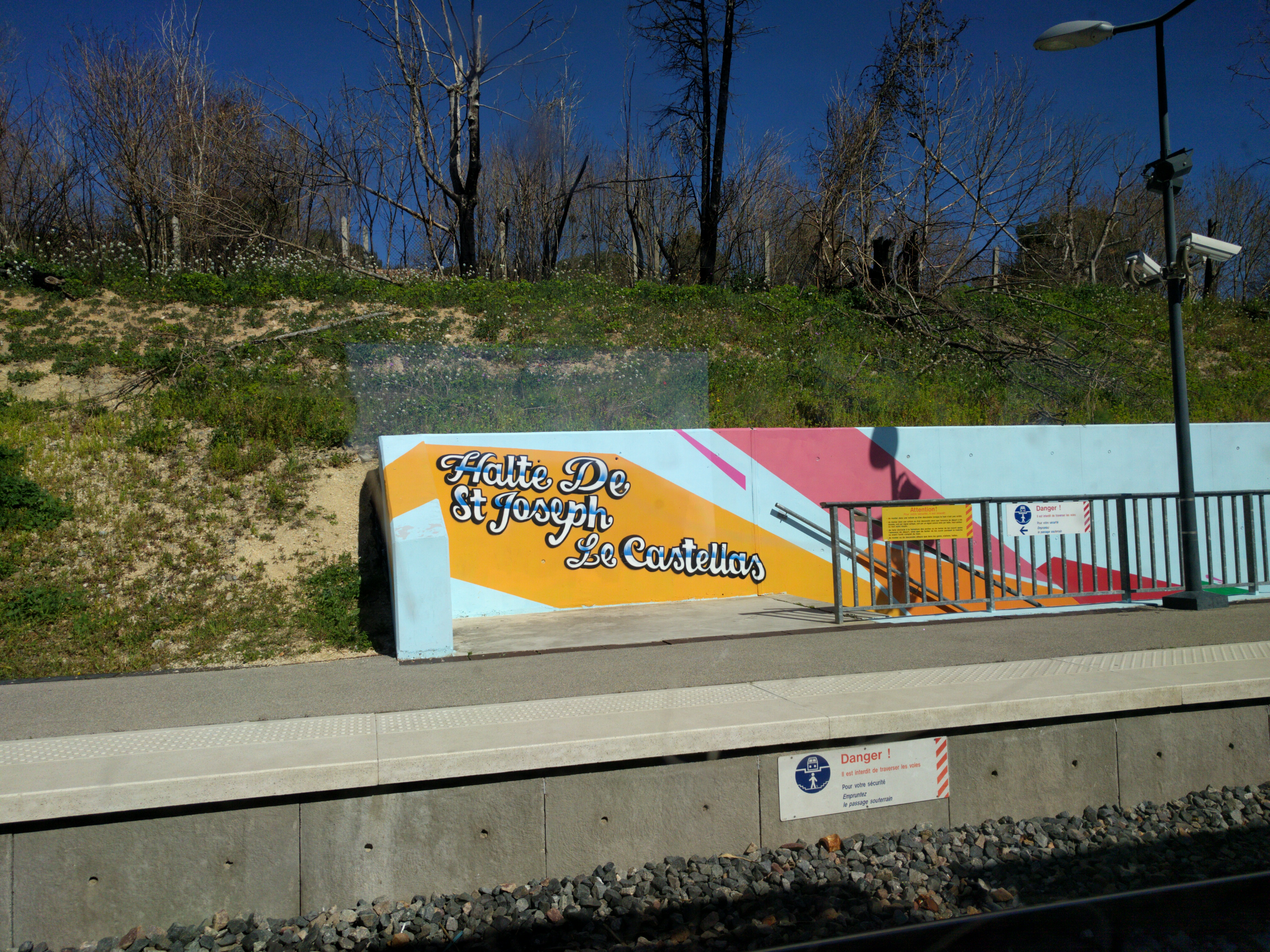 Train station de Saint-Joseph-le-Castellas